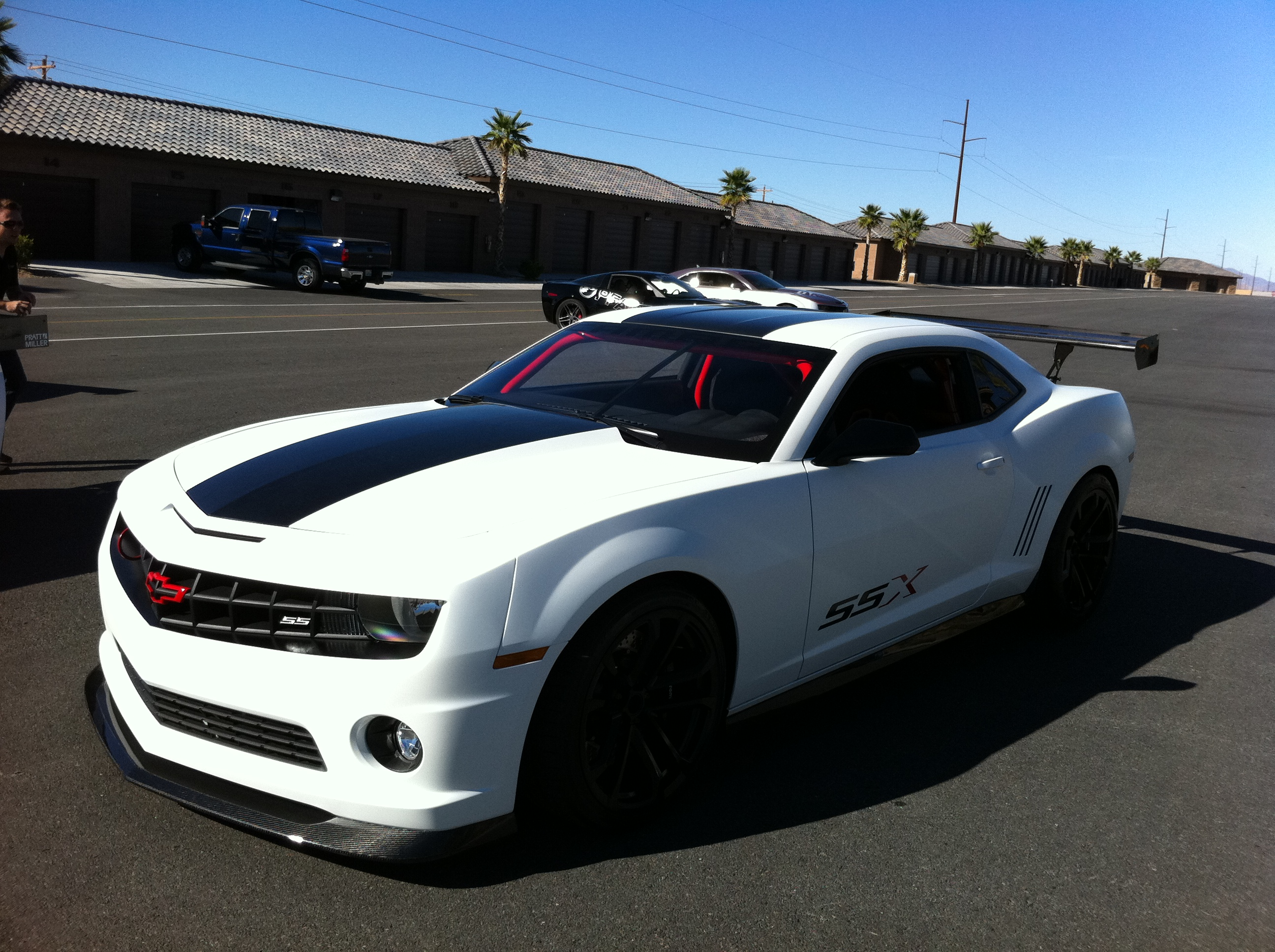 Chevrolet Camaro SSX. Factory built racecar concept.